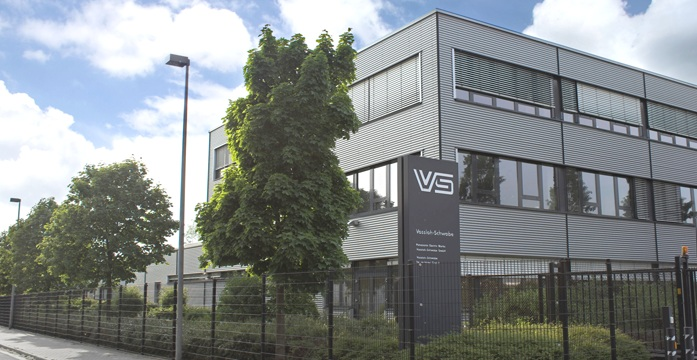 Vossloh-Schwabe plant in Luedenscheid, Germany